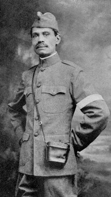 Ralph Waldo Tyler, Newspaper man, 19th-20th c. Race man